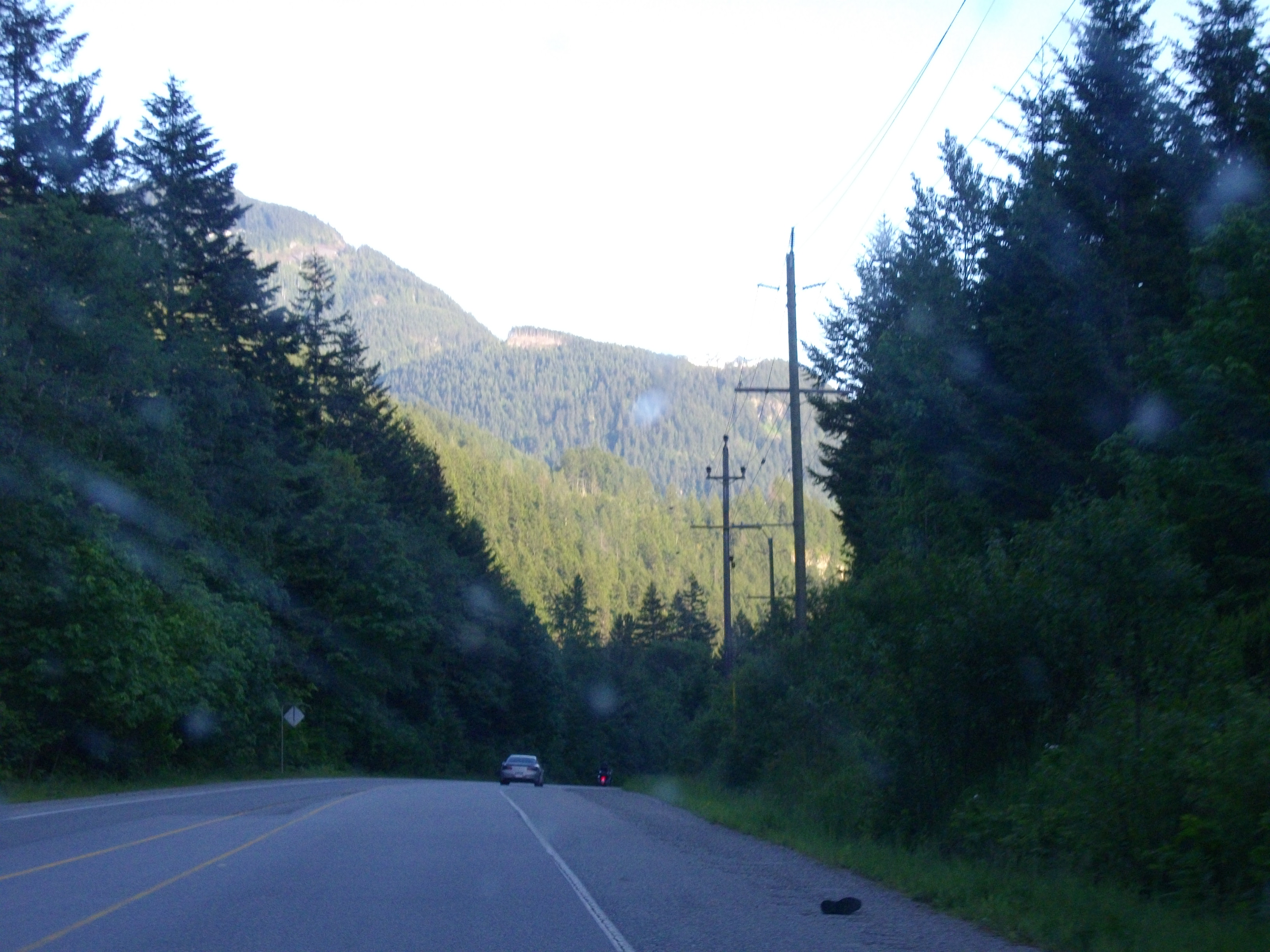 Fraser Canyon along British Columbia Highway #1 between Hope and Yale